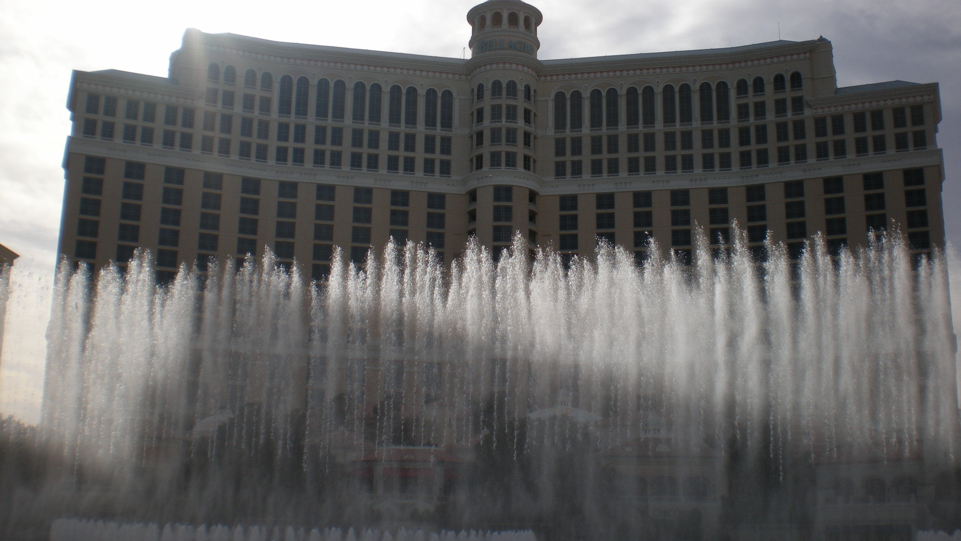 Bellagio